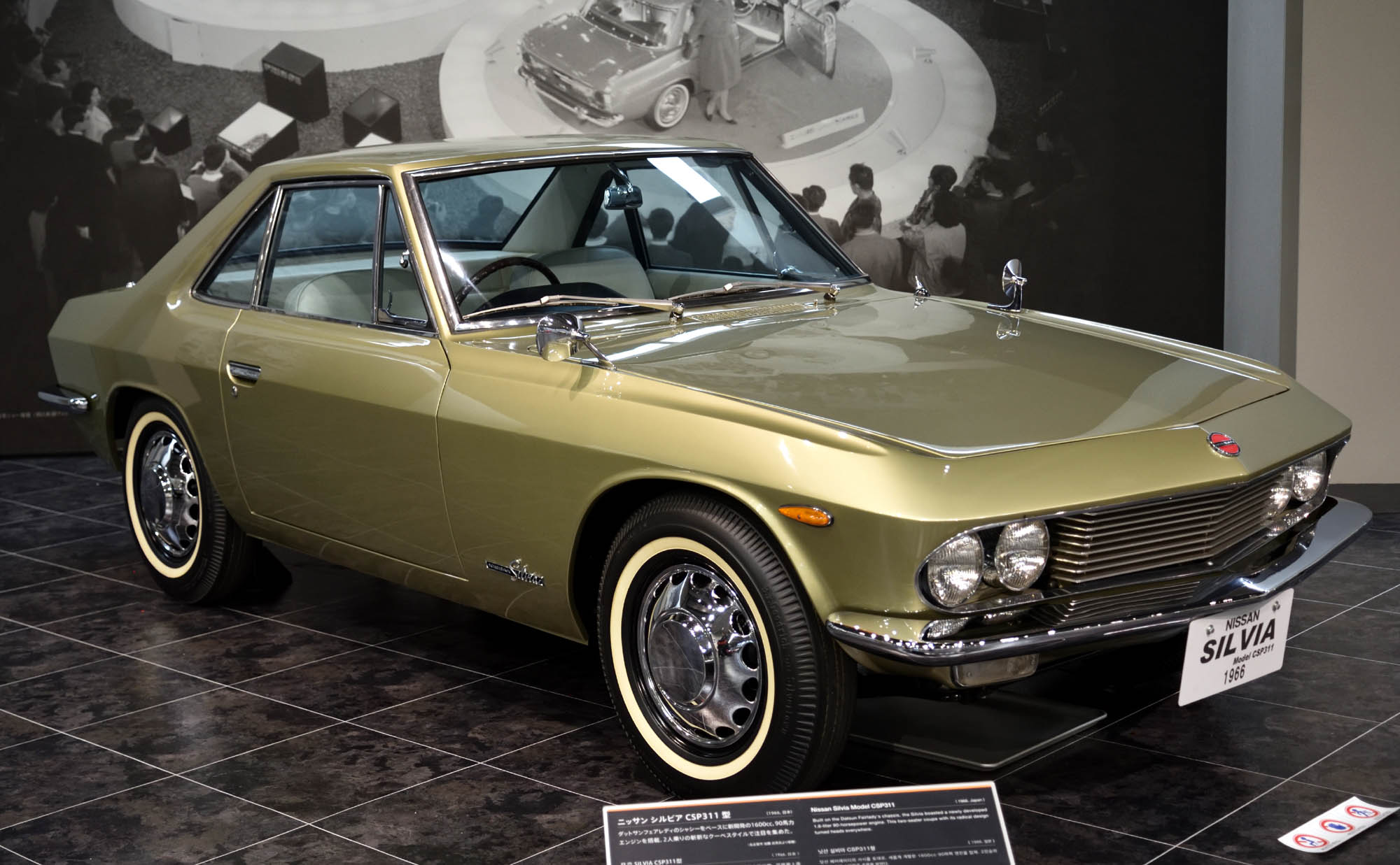 Nissan Silvia Model CSP311 (1966)